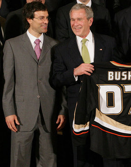 Scott Niedermayer presenting George W. Bush with a jersey